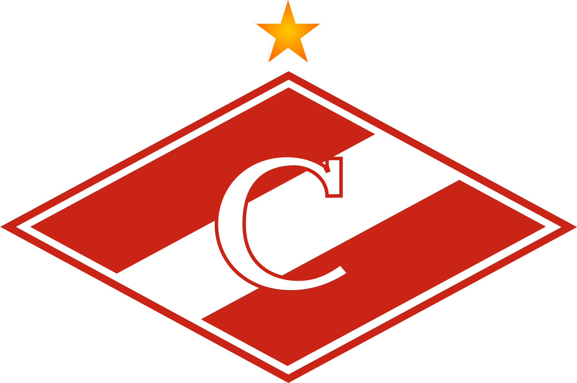 The old Spartak Moscow's logo, containing a star.